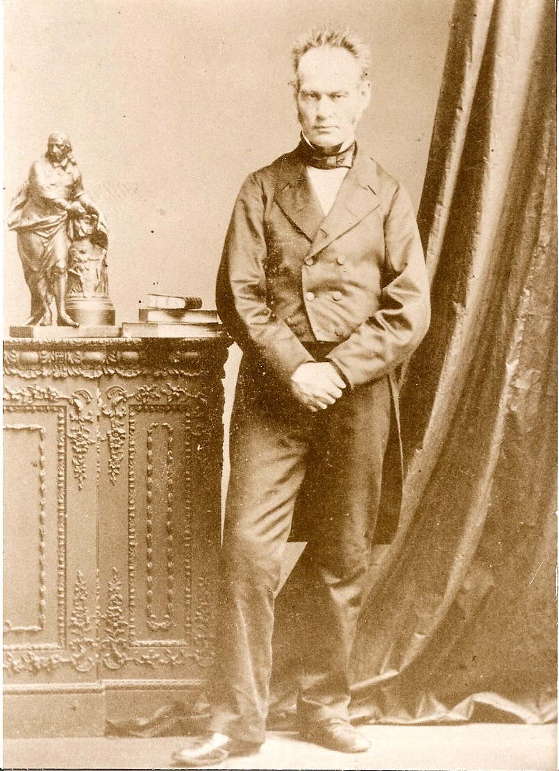 Photograph of Henry Craik, taken some time prior to his death in 1866. Original held at The George Muller Charitable Trust museum, Bristol, UK